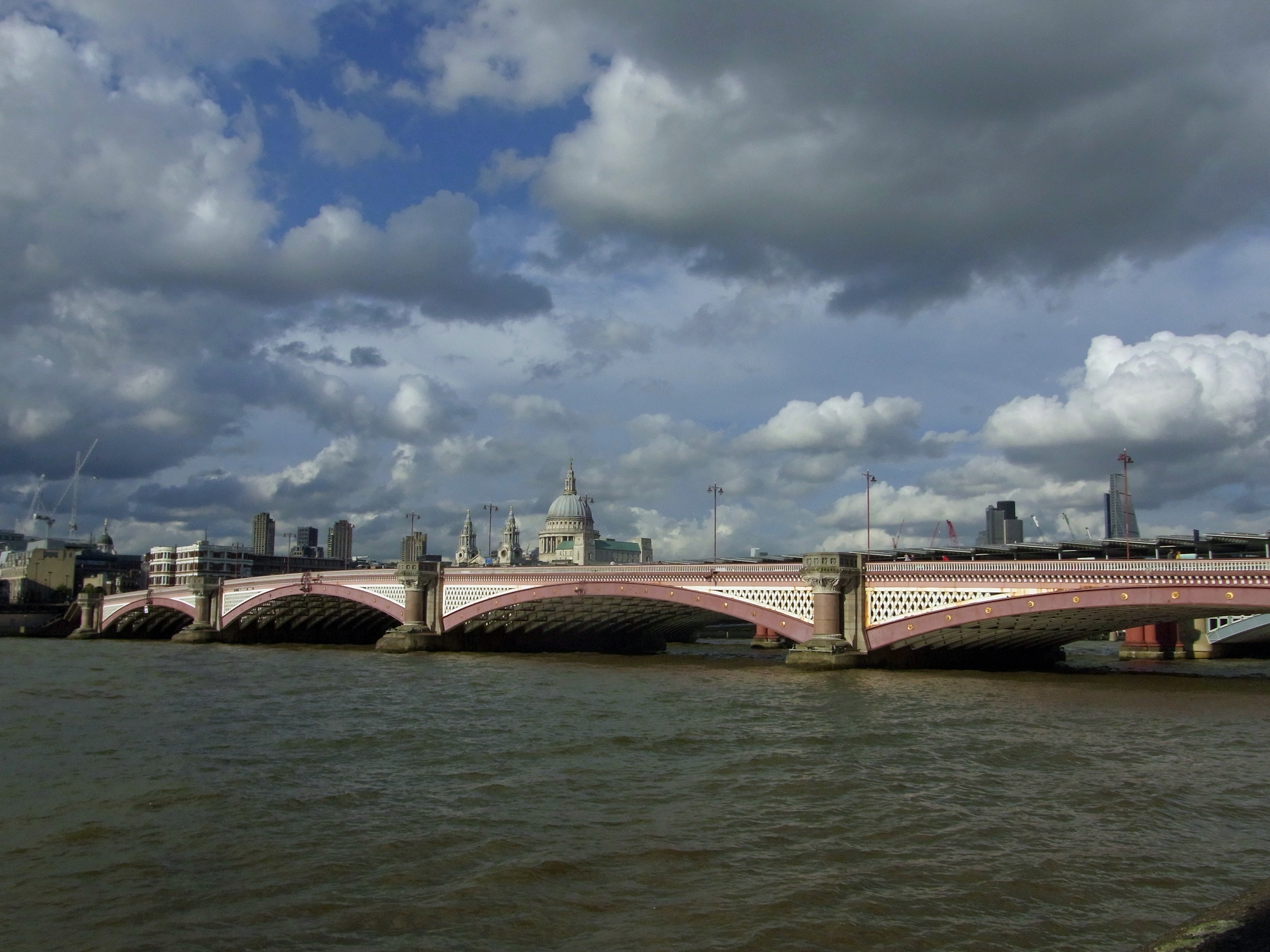 Blackfriars Bridge The making of this document was supported by the Community-Budget of Wikimedia Germany.